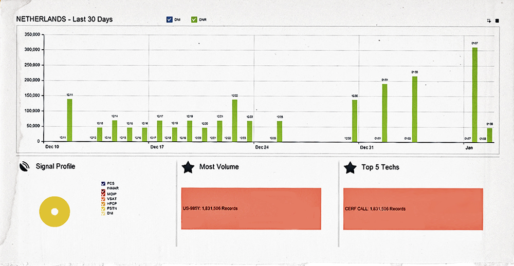 Screenshot from the NSA tool BOUNDLESSINFORMANT showing a chart with telephony metadata collected by the Dutch.